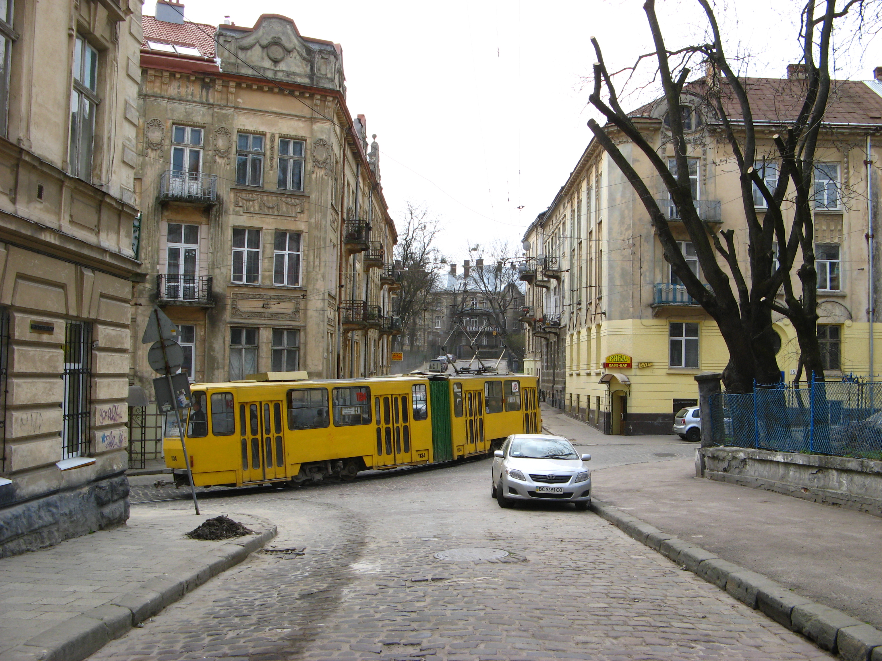 Kotliarevskoho Street, Lviv